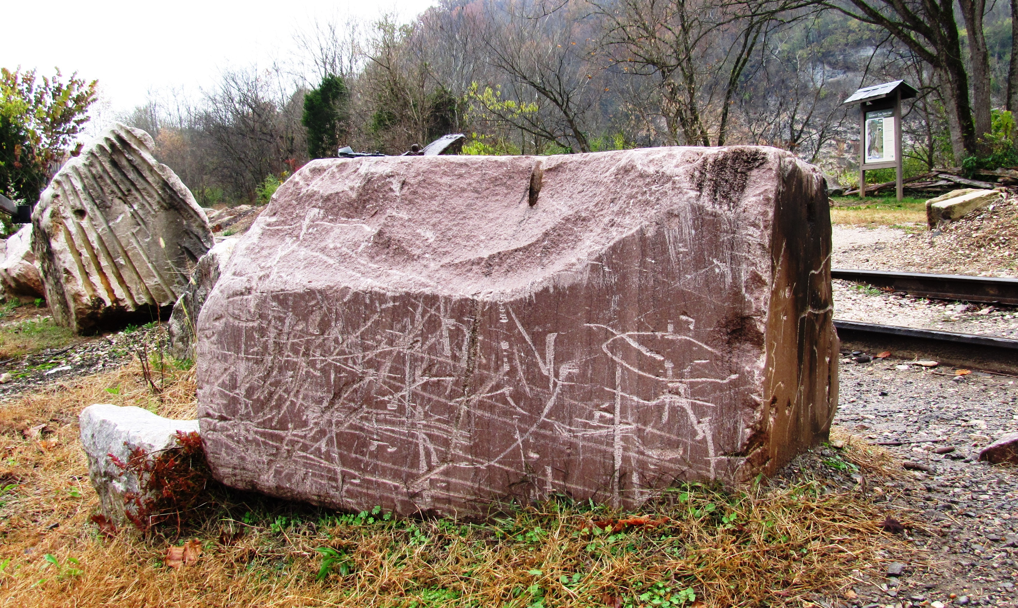 Quarried block of Tennessee marble at the Mead's Quarry section of the Ijams Nature Center in Knoxville, Tennessee, USA.